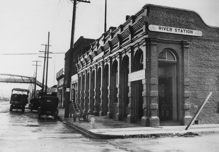 Exterior view of the second River Station of the Southern Pacific — on San Fernando Road north of Chinatown in Los Angeles (ca.1919). The 1887 brick Romanesque Revival style building has an arcade of windows along the street facade. It replaced the first River Station, an 1876 wooden building on the site. The second station was demolished in 1901. The site of the former River Stations is in "The Cornfield" area of Los Angeles State Historic Park. Credits